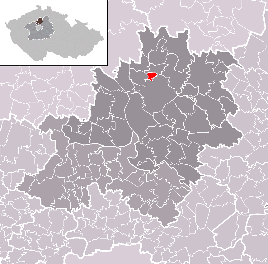 Location of Dolní Zimoř municipality within Mělník District and administrative area of Mělník as a Municipality with Extended Competence.